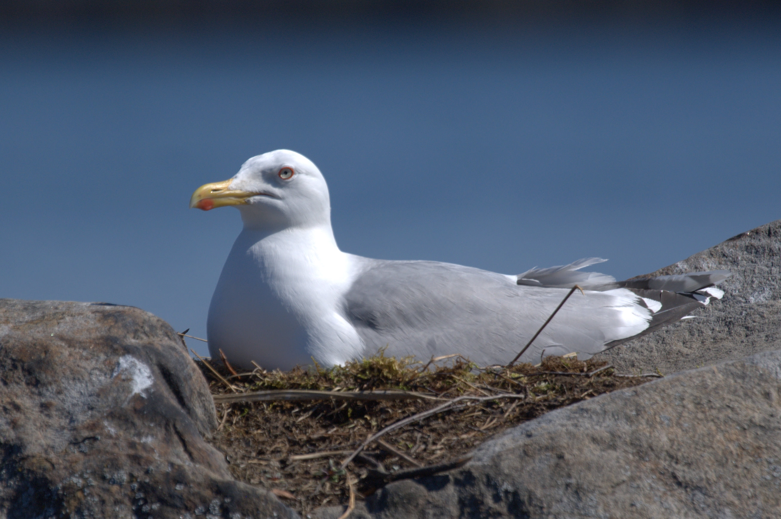 European Herring Gull